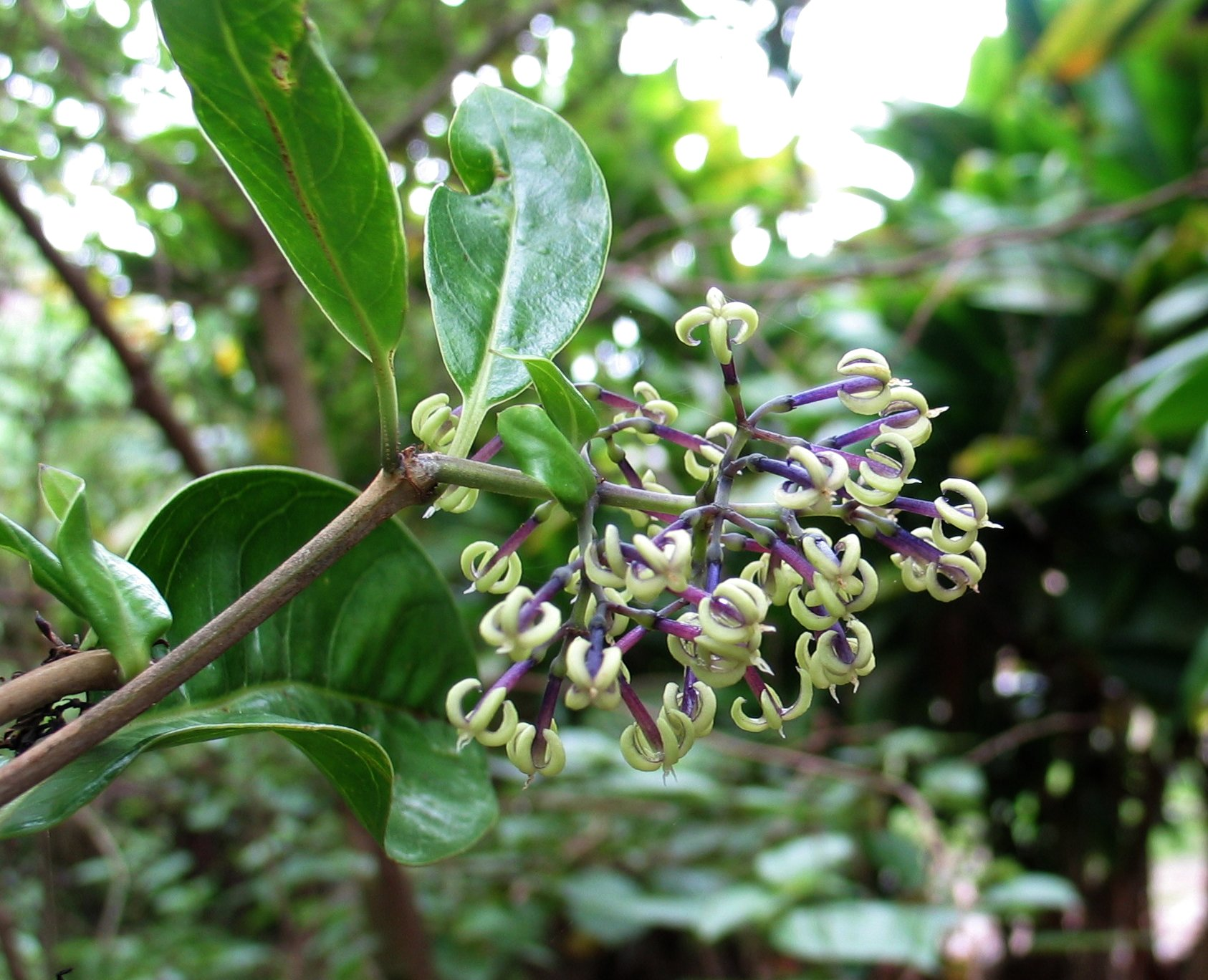 Manono or Variable starviolet [syn. Hedyotis terminalis] Rubiaceae Endemic to the Hawaiian Islands Hawaiʻi Island (Cultivated) NPH00001